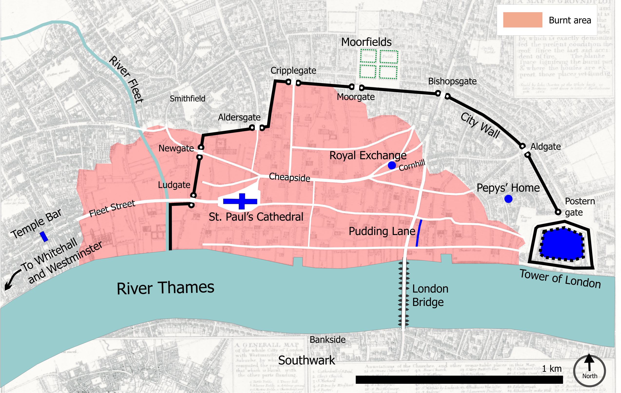 Map of central London in 1666, showing landmarks related to the Great Fire of London. Drawn by Bunchofgrapes in Corel Draw, using public domain Image:Map.London.gutted.1666.jpg as both a reference and background.